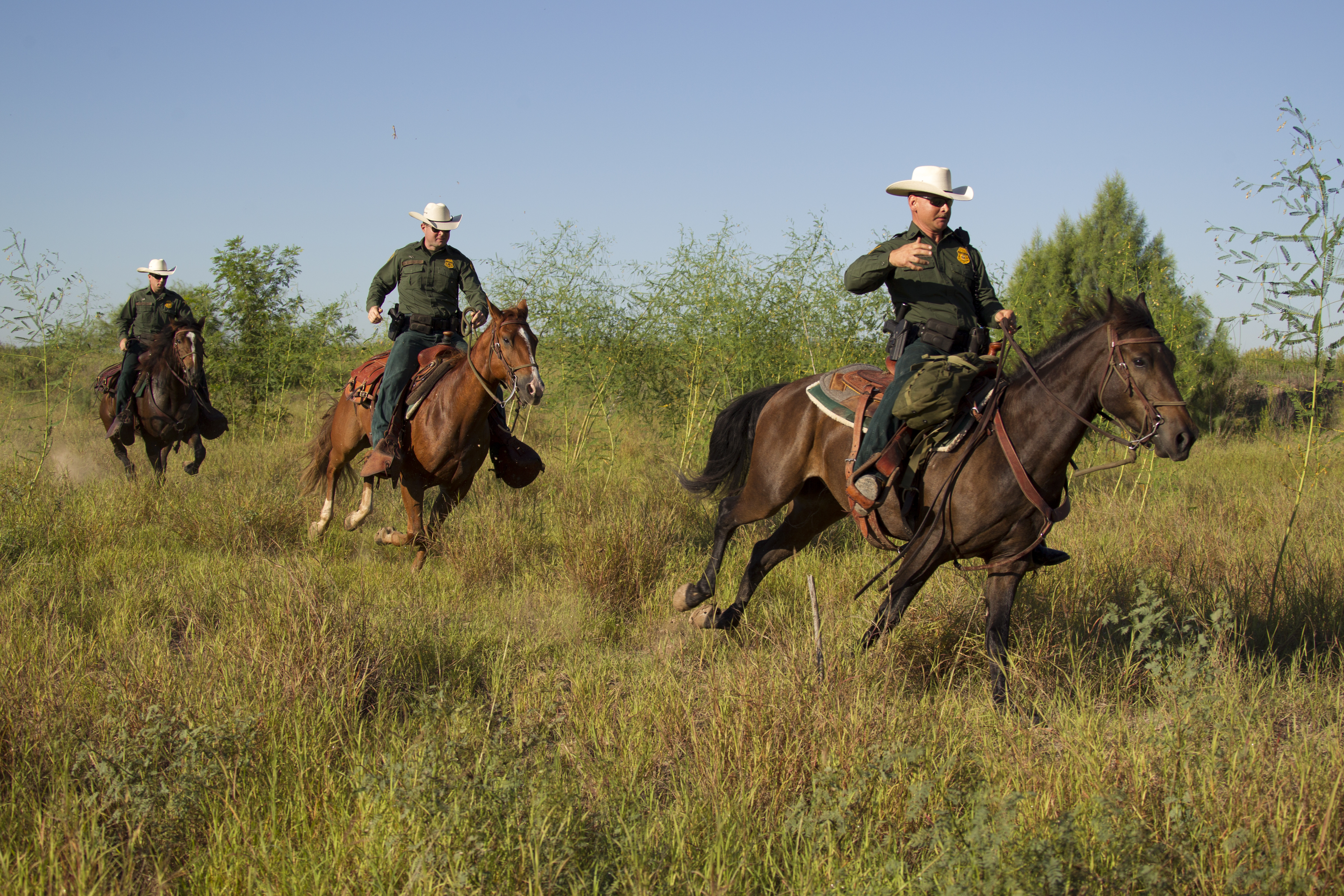 CBP, Border Patrol agents from the McAllen station horse patrol unit on patrol on horseback in South Texas. Photographer: Donna Burton